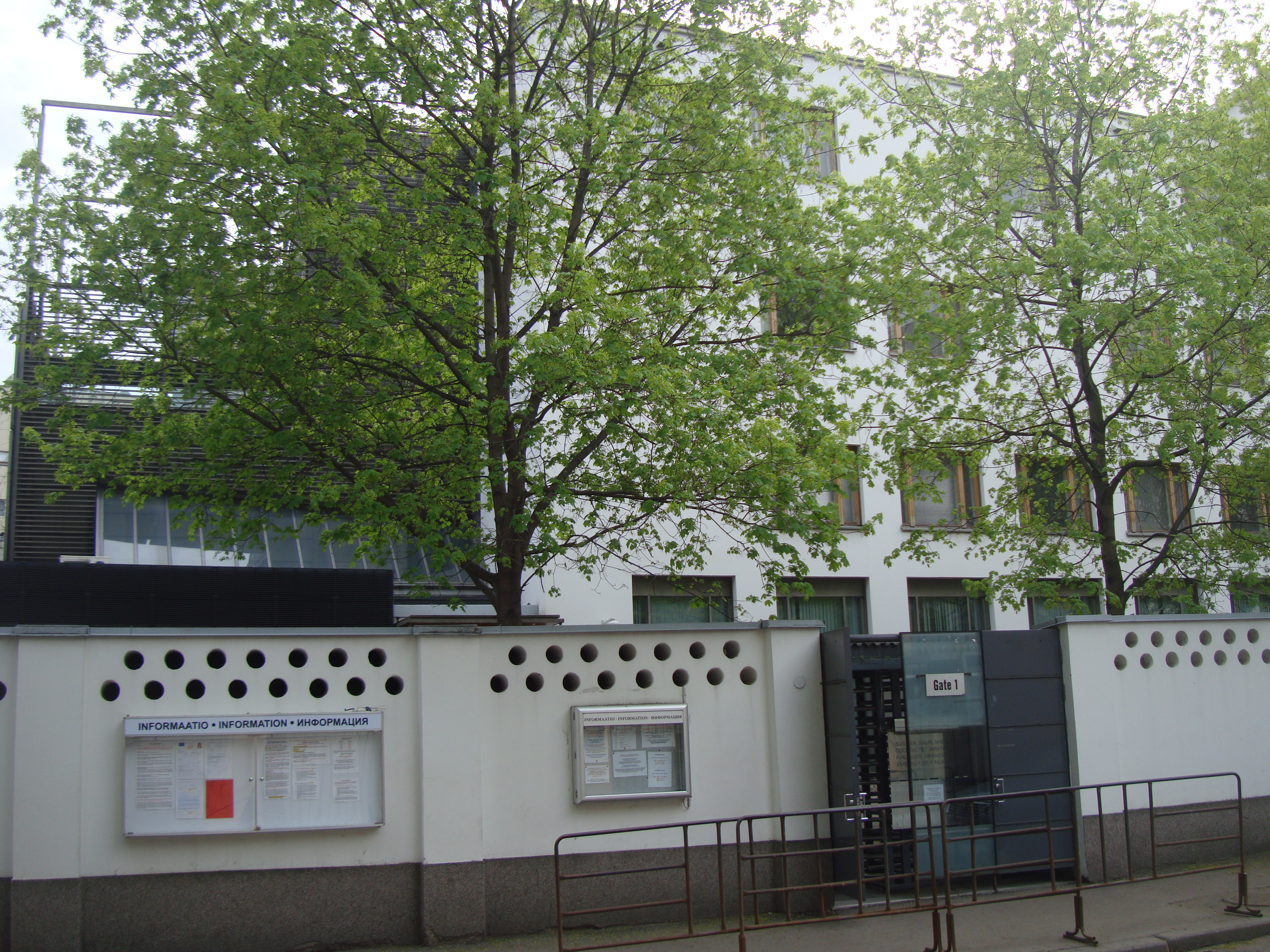 15/17 Kropotkinskii Lane, Khamovniki District, Moscow, Russia. Embassy of Finland.